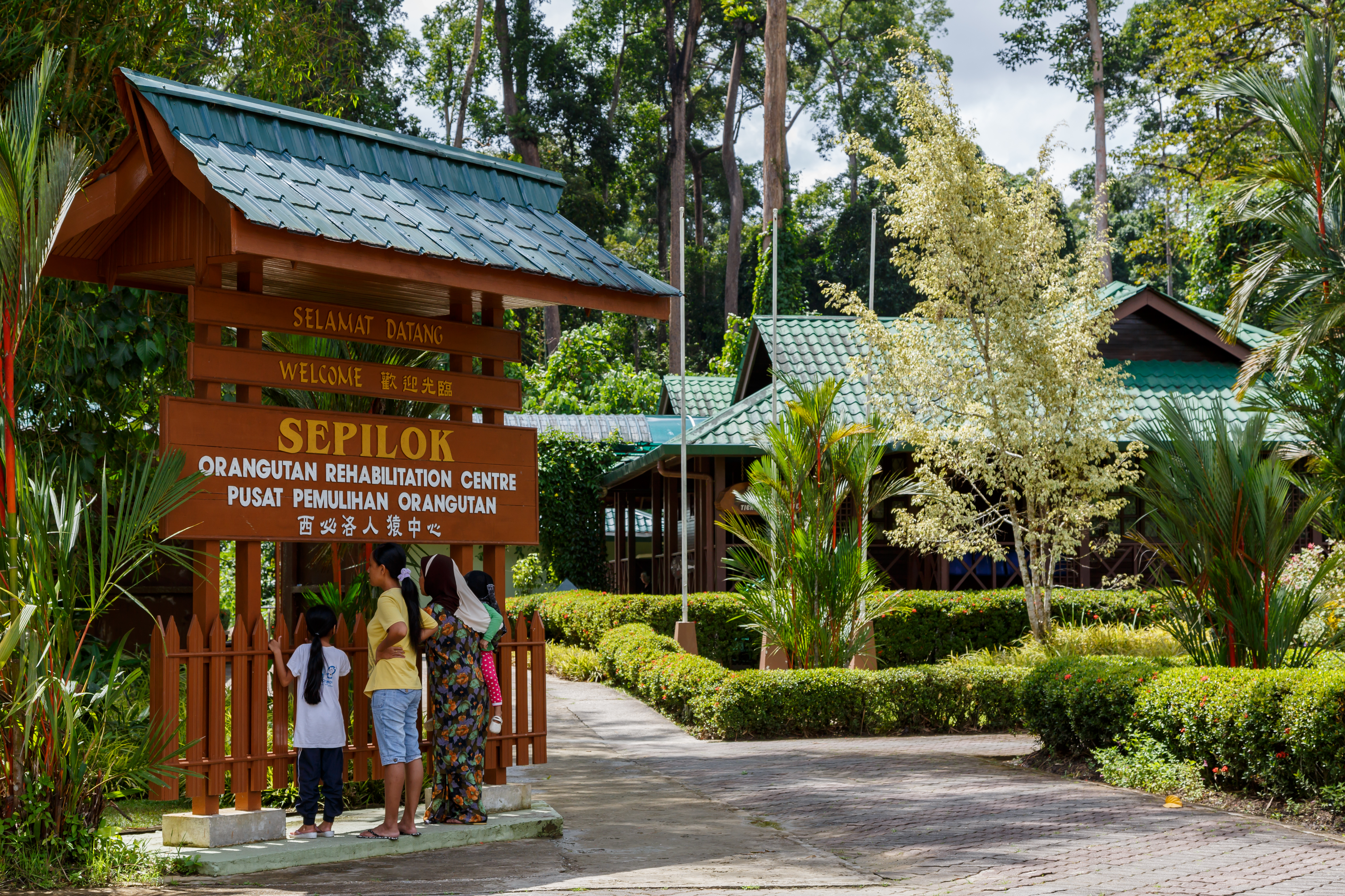 District Sandakan, Sabah: Sepilok Orangutan Rehabilitation Centre; visitor centre